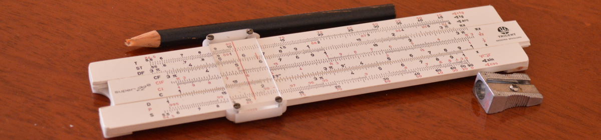 Slide ruler with pencil and sharpner